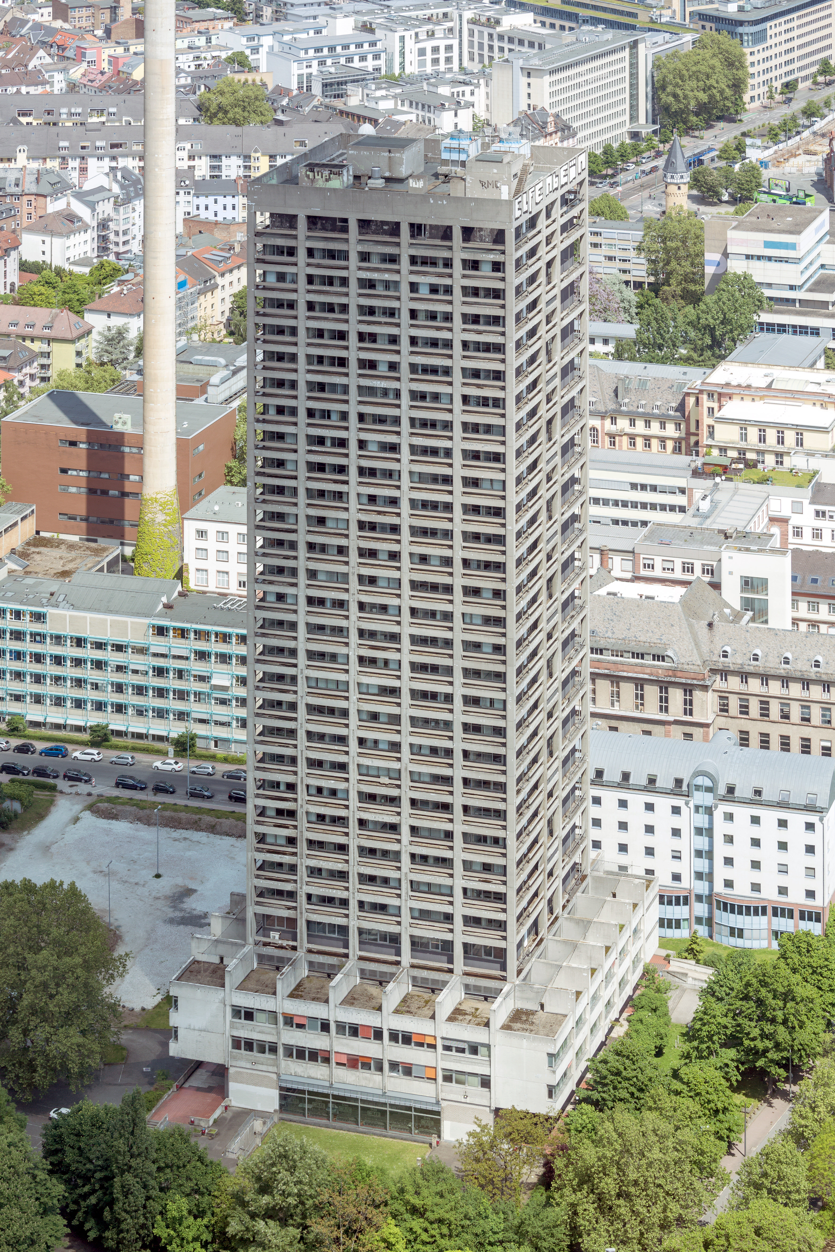 Frankfurt on the Main: AfE-Turm (AfE-Tower) as seen from the Messeturm (Fair Tower)